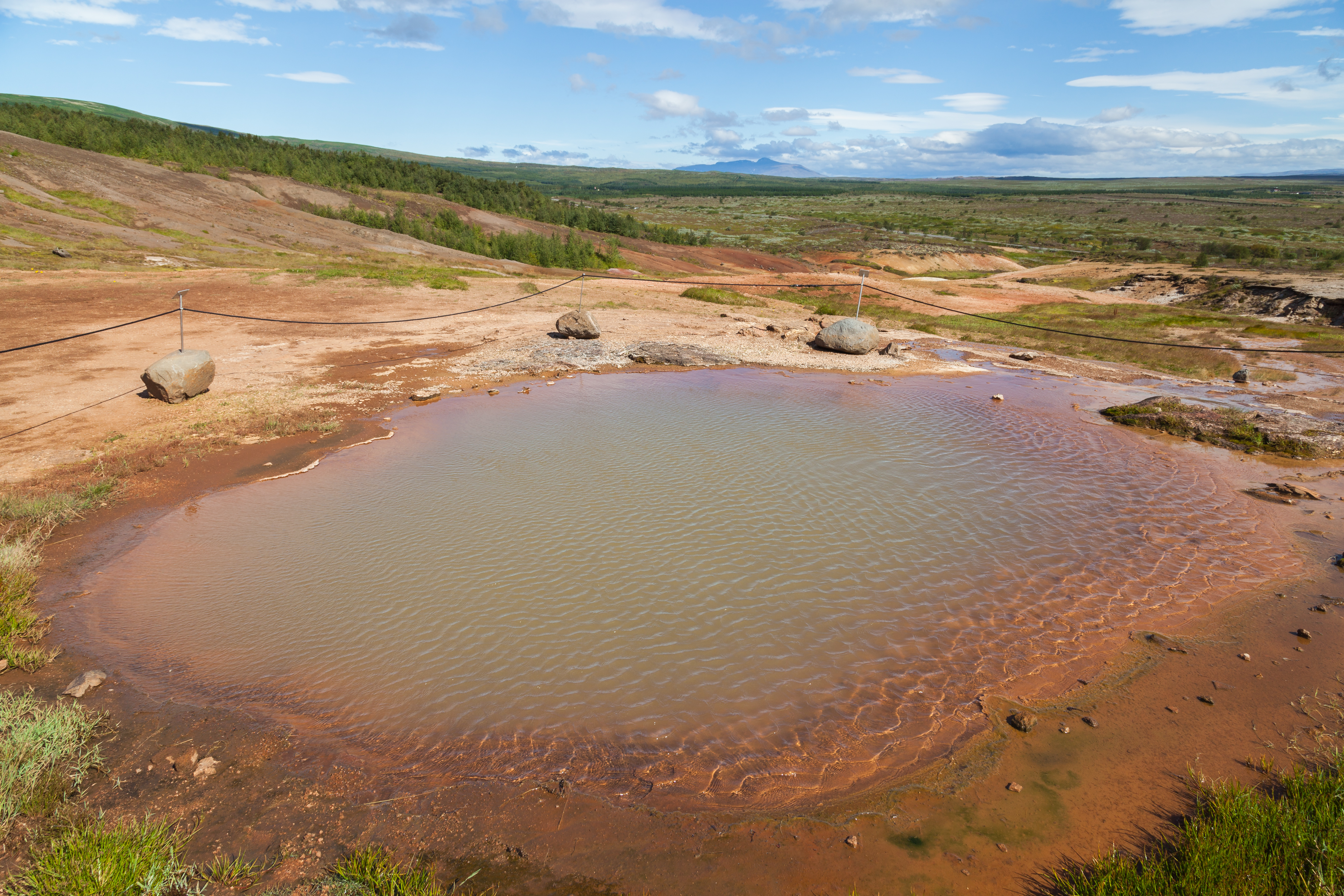 Konungshver, Geysir Geothermal Field, Suðurland, Iceland